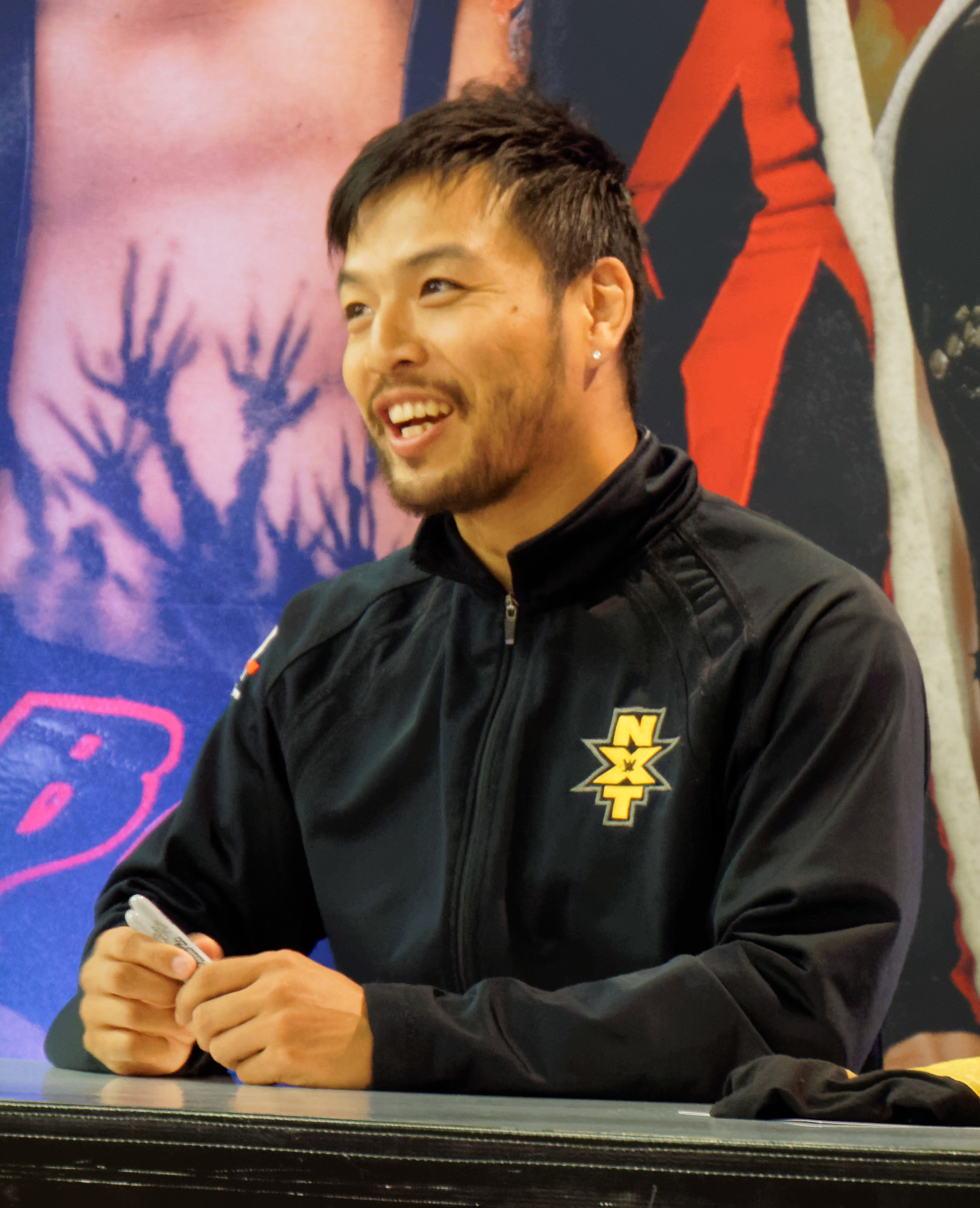 WrestleMania Axxess takes over the Kay Bailey Hutchison Convention Center in Dallas March 31-April 3. Featuring Superstar and Diva meet-and-greets, memorabilia displays and much more, WrestleMania Axxess is one event WWE fans of all ages will want to be part of. Don't miss out!